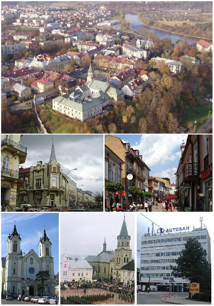 Collage of views of Sanok